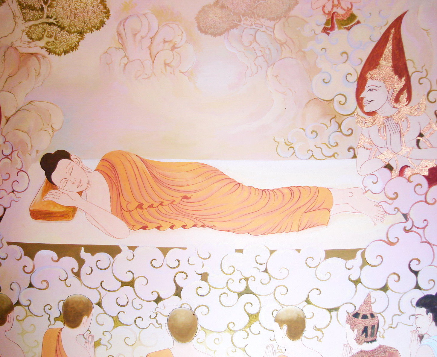 Wat Tha ThanonLocation: Wat Tha Thanon Mueang Uttaradit, Uttaradit Province, Thailand.